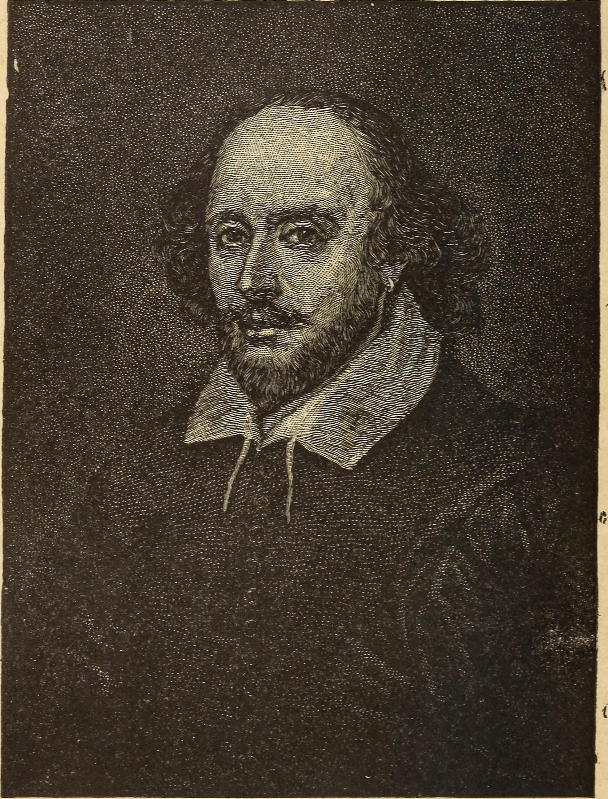 Title: An introduction to English literature Year: 1902 (1900s) Authors: Pancoast, Henry Spackman, 1858-1928. (from old catalog) Subjects: English literature Publisher: New York, H. Holt and company Text Appearing Before Image: longer ones as The Faerie Oueene, Childe HaroldsPilgrimage, etc. 163 pp. of notesXmainly biographical) andan Index. STANDARD ENGLISH PEOSE 676 pp. i2mo. %^.^o7iet. About one hundred selections (most of them complete inthemselves) from Bacon, Walton, Sir Thomas Browne, Fuller,Milton, Jeremy Taylor, Cowley, Bunyan, Dryden, Defoe, Swift,Addison, Steele, Johnson, Goldsmith, Burke, Coleridge,Southey, Lamb, Landor, Hazlitt, De Quincey, Carhle, Macau-lay, Newman, Froude, Ruskin, Thackeray^ Matthew Arnold.Pater, and Stevenson, with introduction and notes. AN INTSODUOTION TO AMEEIOAN LITEEATUEE With Study lists of works to be read, references, chrono-logical tables, and portraits. 393 pp. i6mo. $1.00 7iet.This book follows the main lines of the authors Intro-duction to English Literature. The special influence ofourhistory upon our literature is shown, and the attention is chieflyconcentrated on a limited number of typical authors andworks, treated at some length. HENRY HOLT & CO. airilro Text Appearing After Image: WILLIAM SHAKESPEARE AN INTRODUCTION TO ENGLISH LITERATURE BY ^ HENRY S. PANCOAST Instructor in English Literature in the De Lancey Schoolintroductionto00panc